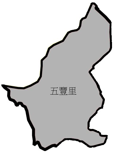 Wufong Village of Hsinchu Zhudong Township.